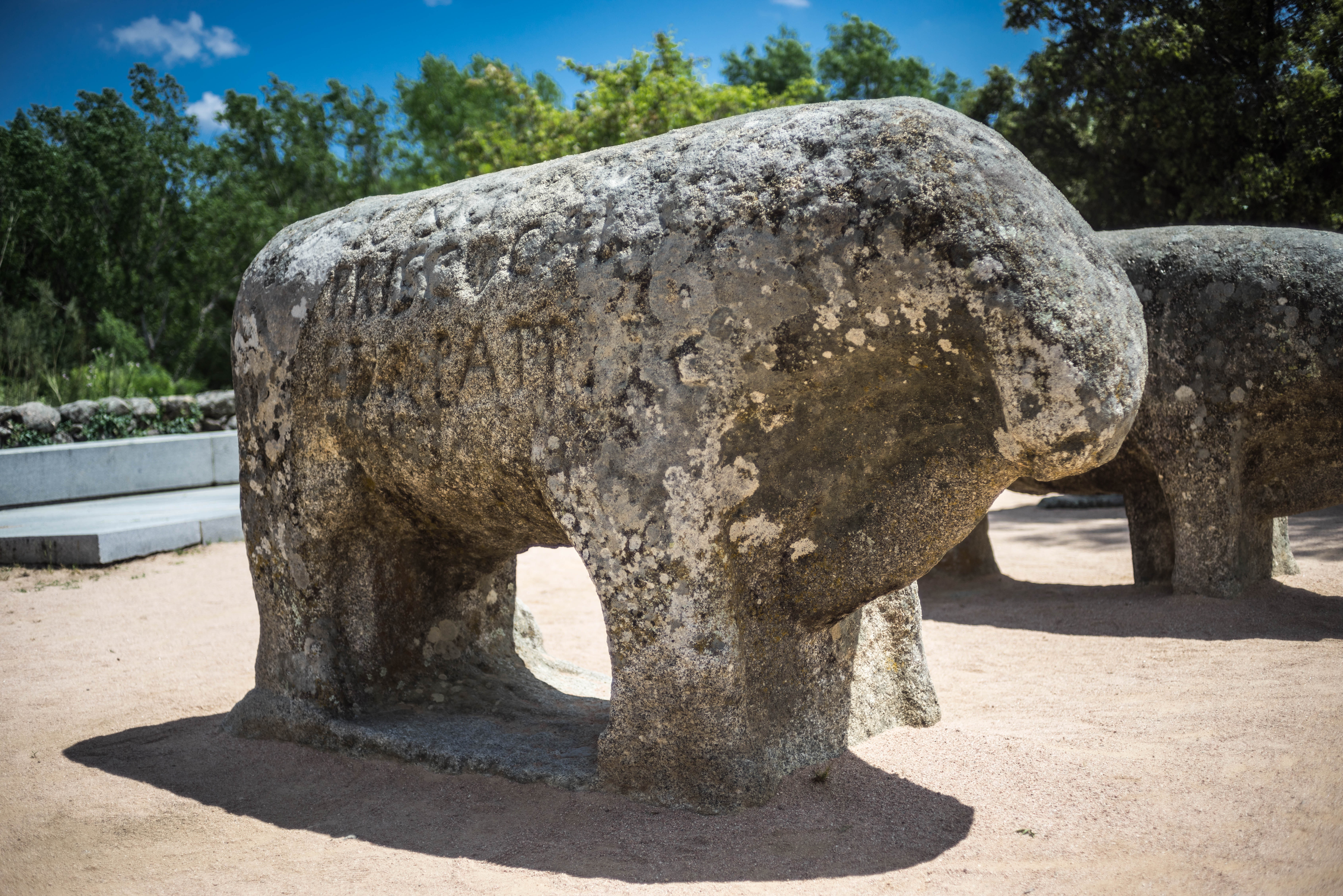 Bulls of Guisando, El Tiemblo